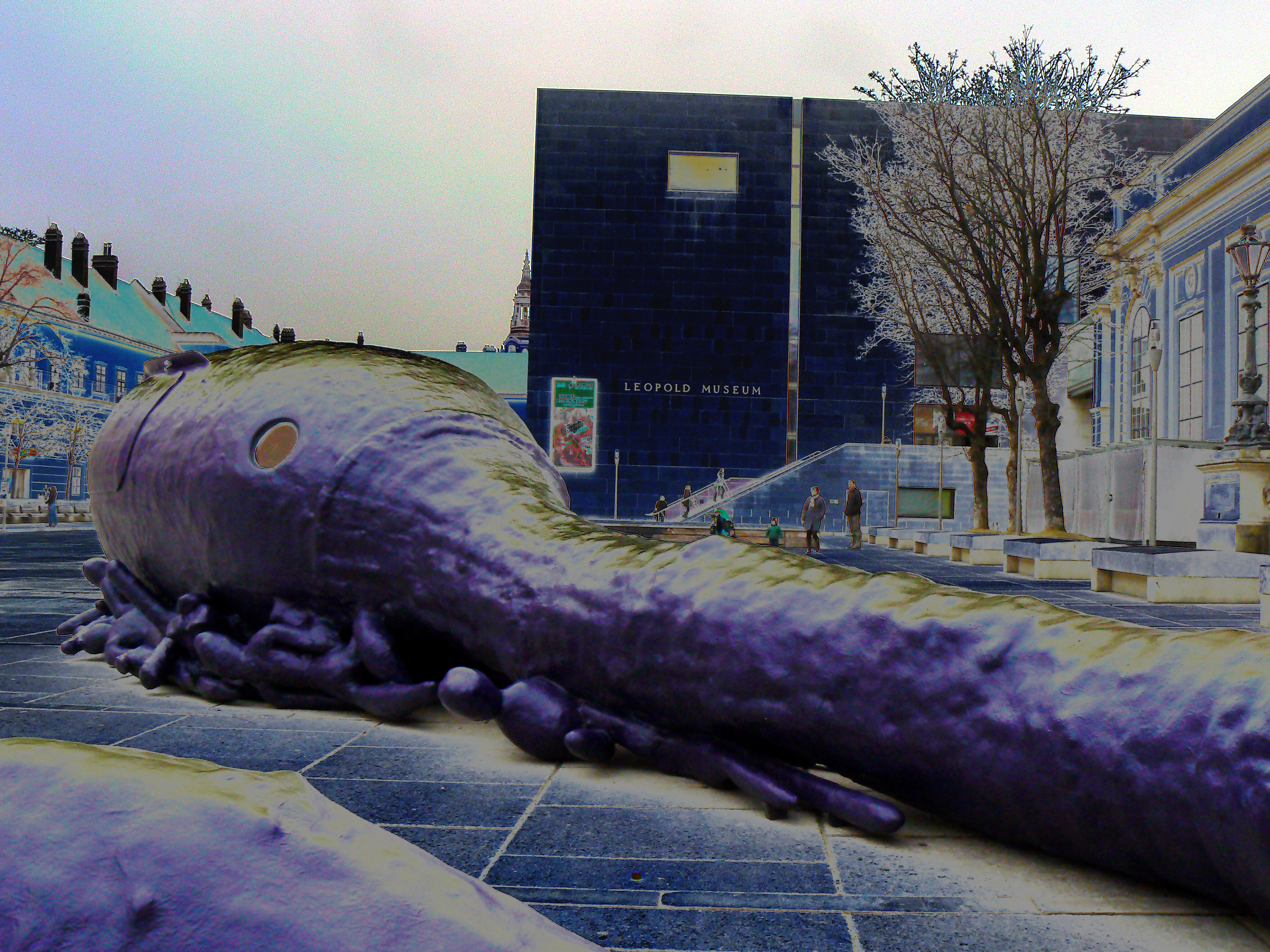 Joep van Lieshout, Dunkelblaues Spermium, Museumsplatz, Vienna 2010.